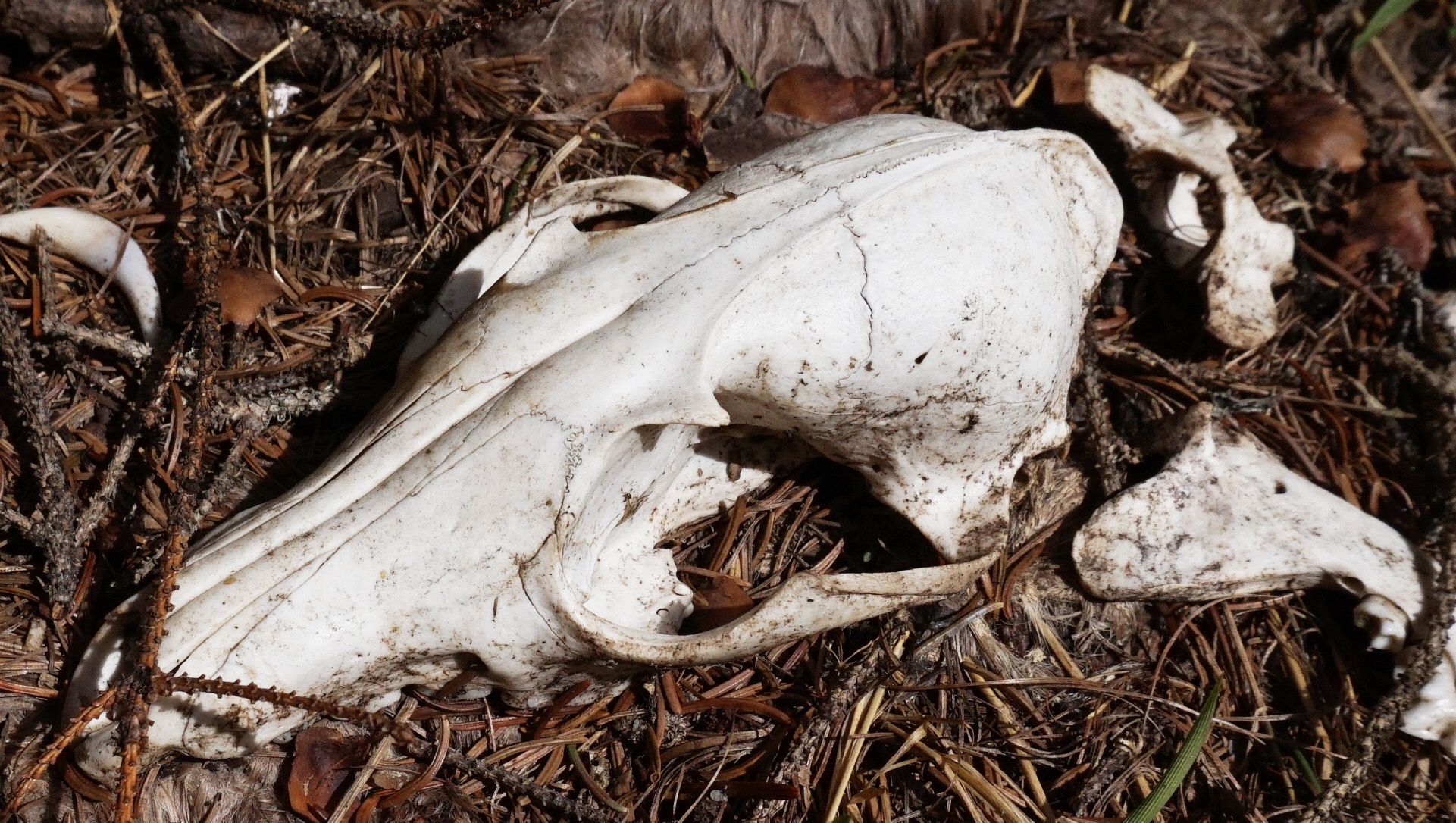 Animal skull in Italy. This photograph was taken with a Sony Alpha a5000.